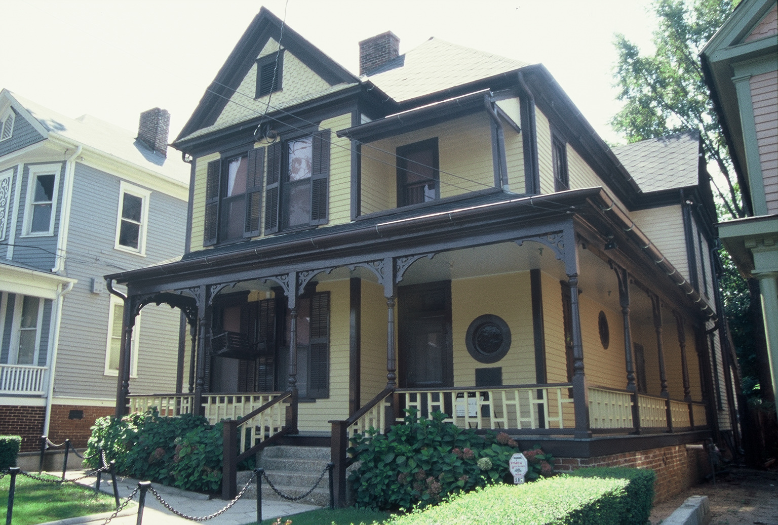 Just past noon on January 15, 1929, a son was born to the Reverend and Mrs. Martin Luther King, Sr., in an upstairs bedroom of 501 Auburn Avenue, in Atlanta, Georgia. It was in these surroundings of home, church (Ebenezer Baptist Church), and neighborhood (Sweet Auburn) that "M.L." experienced family and Christian love, segregation in the days of "Jim Crow" laws, diligence and tolerance.